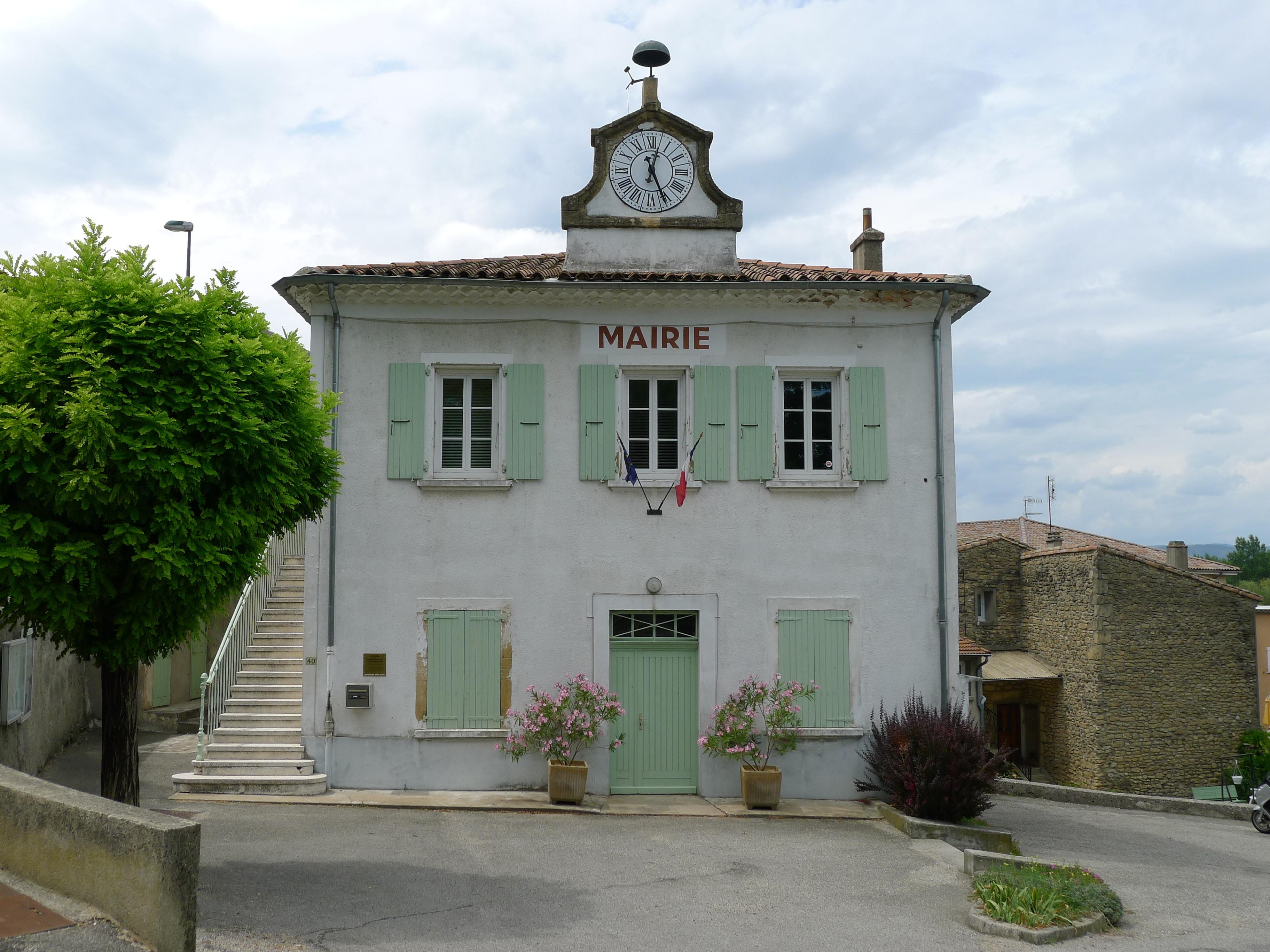 Town hall of Beauvallon - Drôme - France